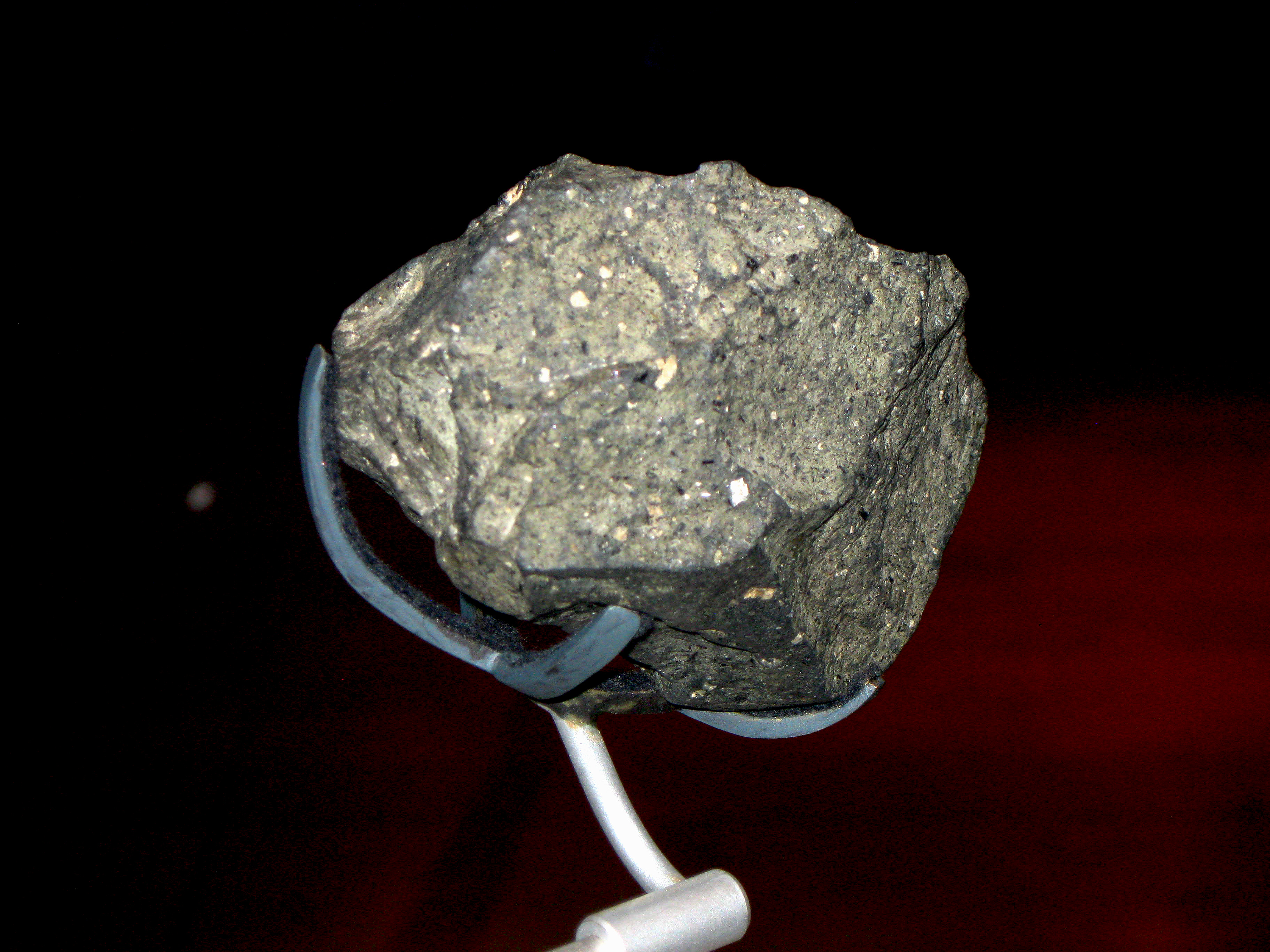 The oldest artefact within the walls of the British Museum. Dated to approximately 1.8 Million year of age.